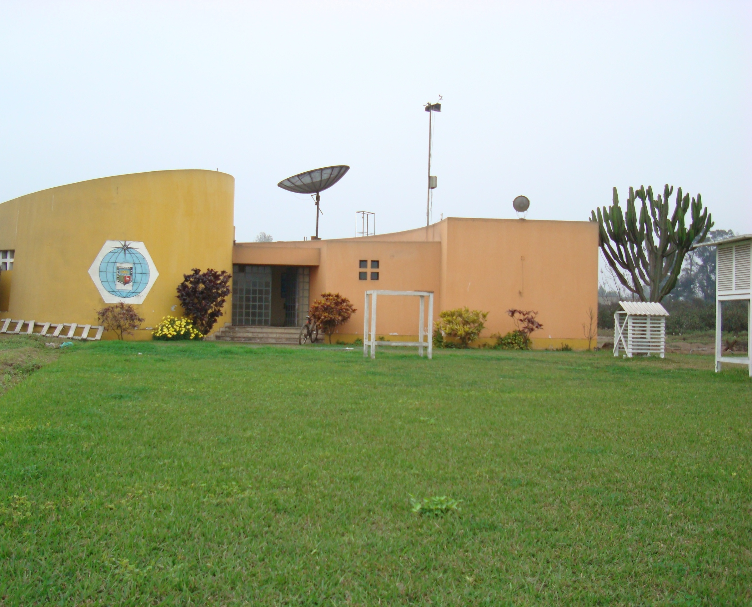 Weather station at Universidad Nacional Agraria La Molina, Lima, Peru.